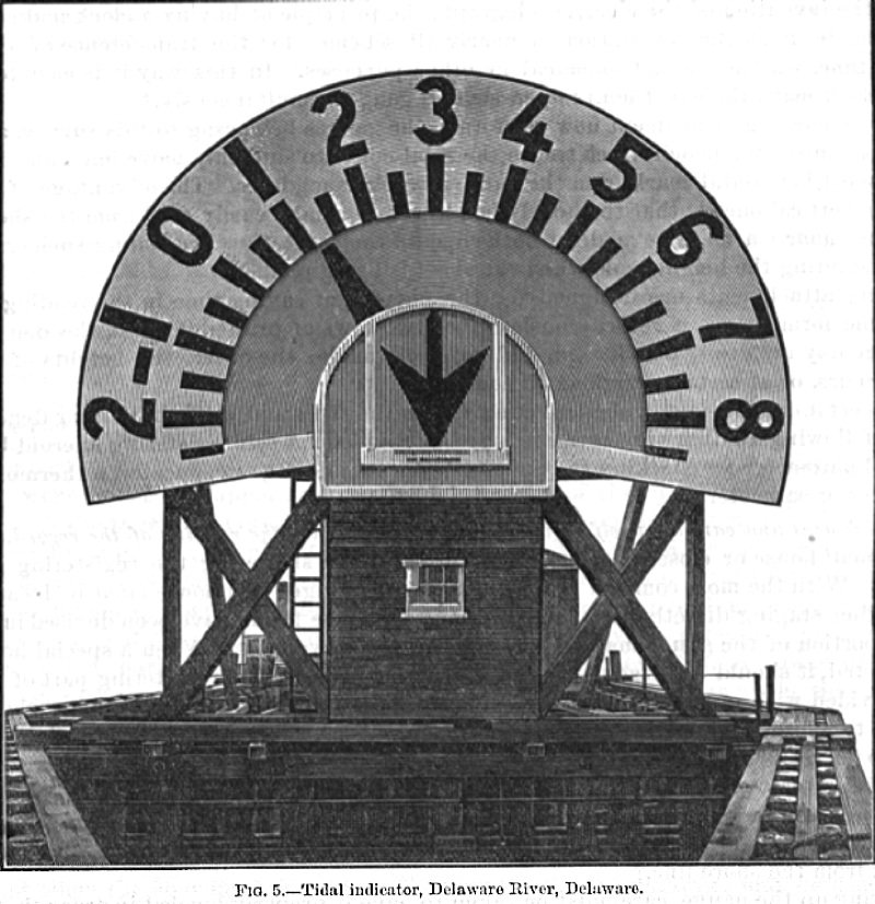 Tidal Indicator, Delaware River, Delaware. At the time shown in the figure, the tide is 1¼ feet above mean low water and is still falling, as indicated by pointing of the arrow. Indicator is powered by system of pulleys, cables and a float.